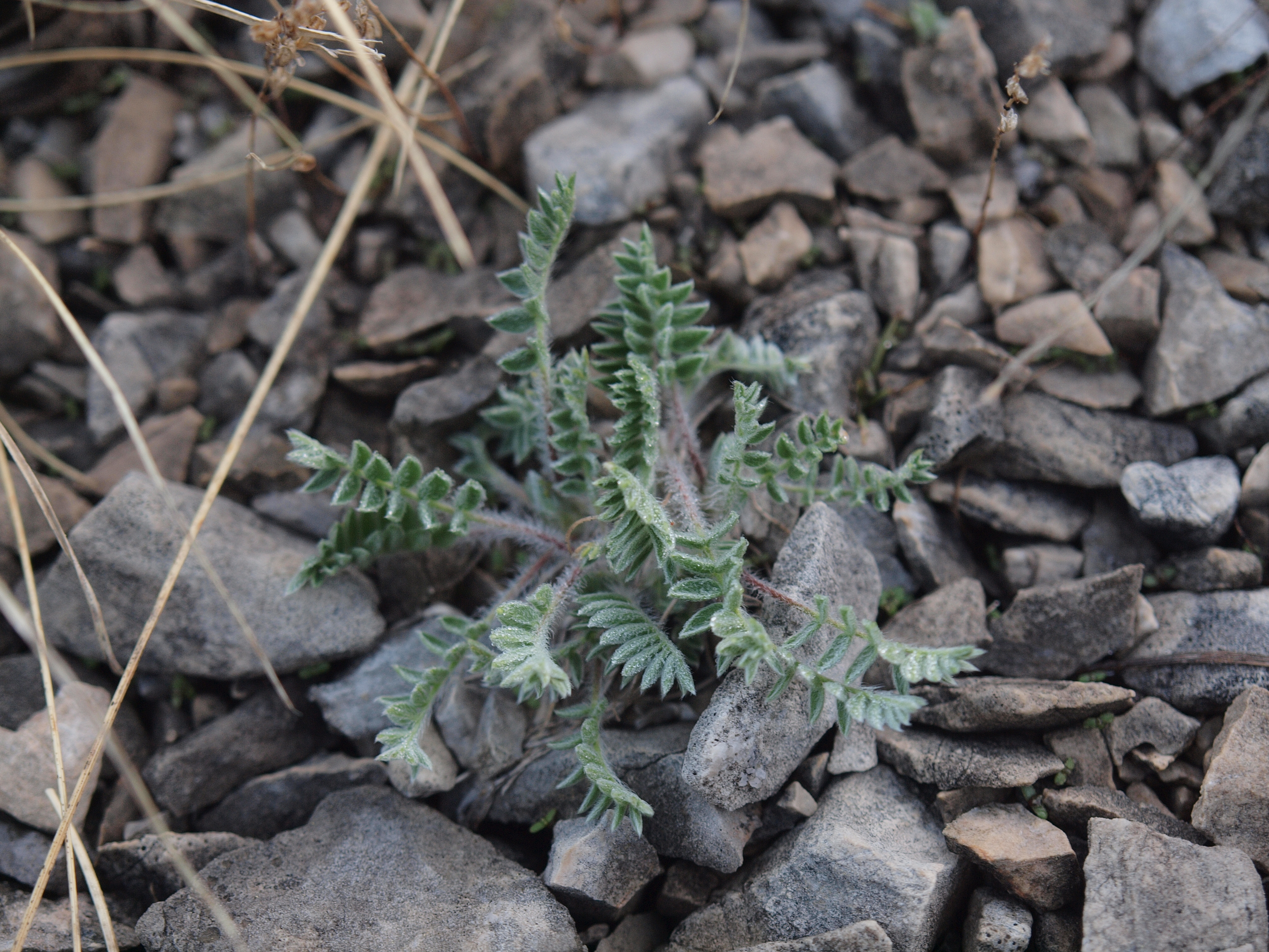 Oxytropis dinarica ssp. dinarica var. macrocarpa leg. P.Cikovac Opuvani do paleodoline Mt Orjen